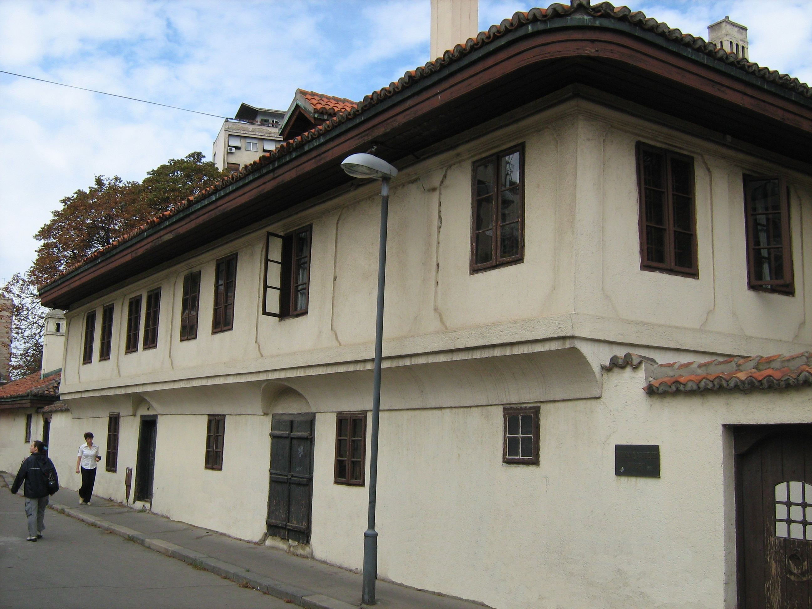 Museum of Vuk and Dositej, Belgrade